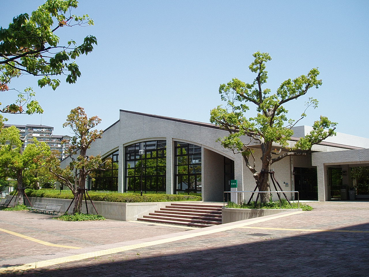 The library of Kobe City University of Foreign Studies. Located in Nishi-ku, Kobe, Japan.